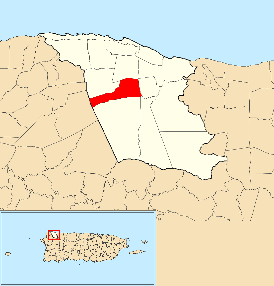 Arenales Bajos, Isabela, Puerto Rico locator map